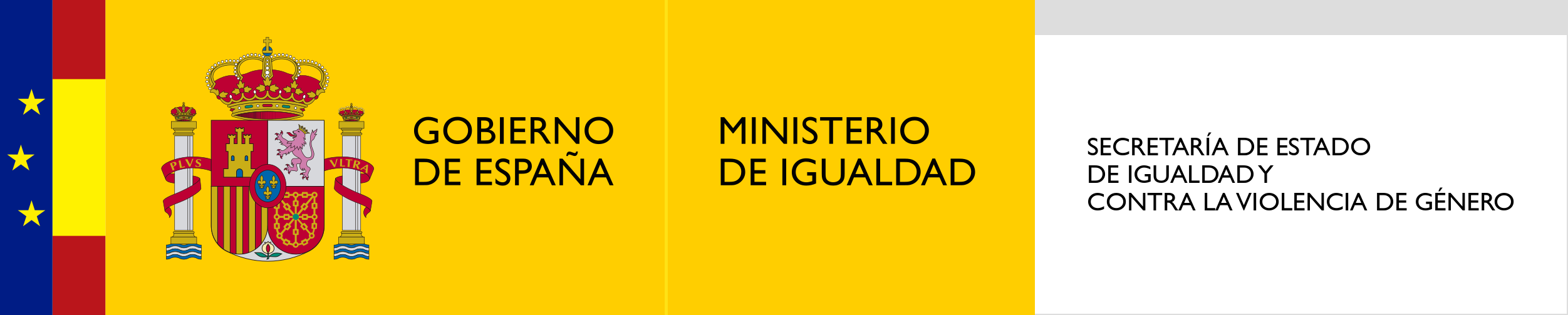 Logo of the Secretariat of State for Equality and against Gender Violence of Spain.